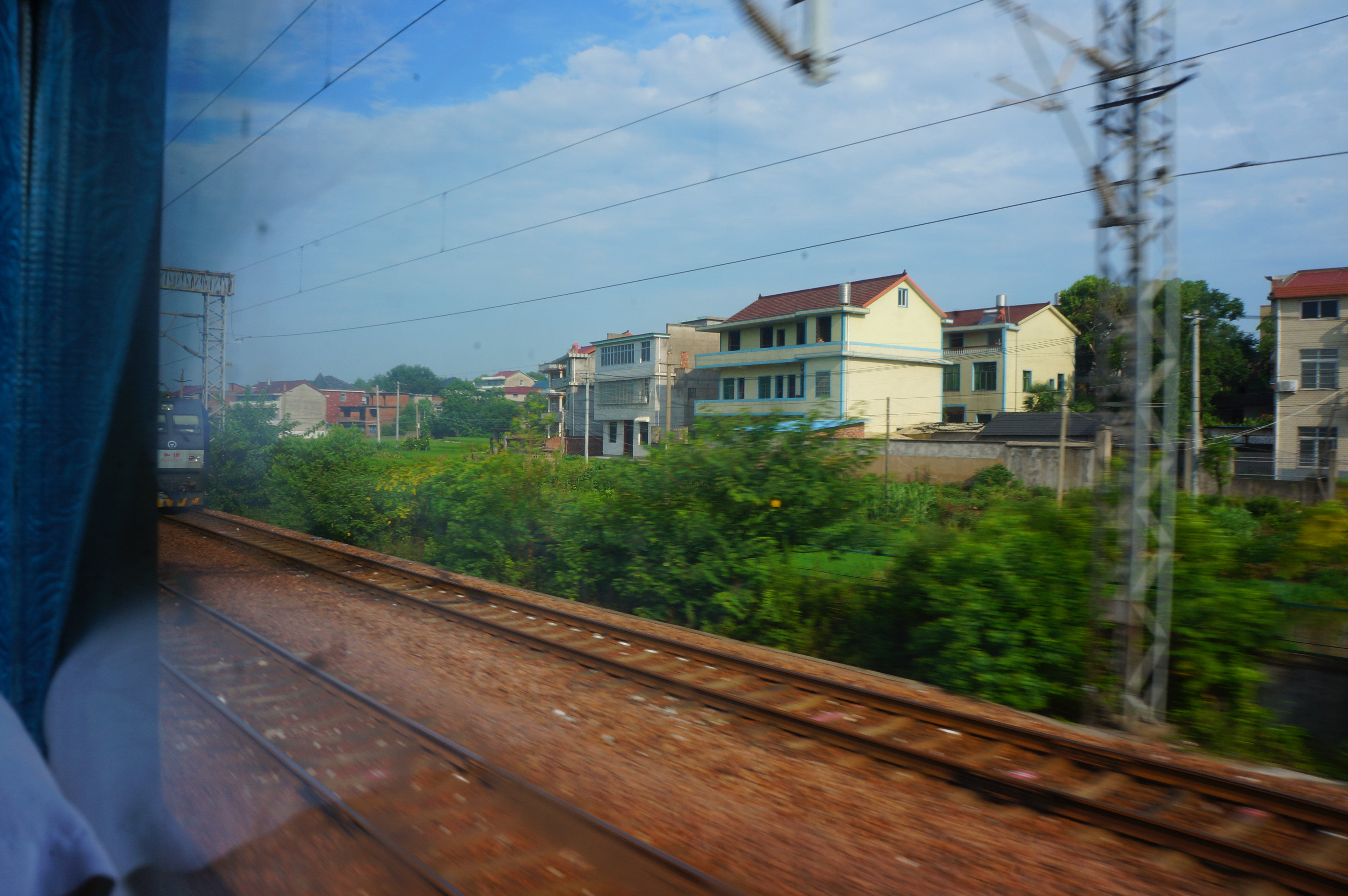 201708 Guangfeng Station